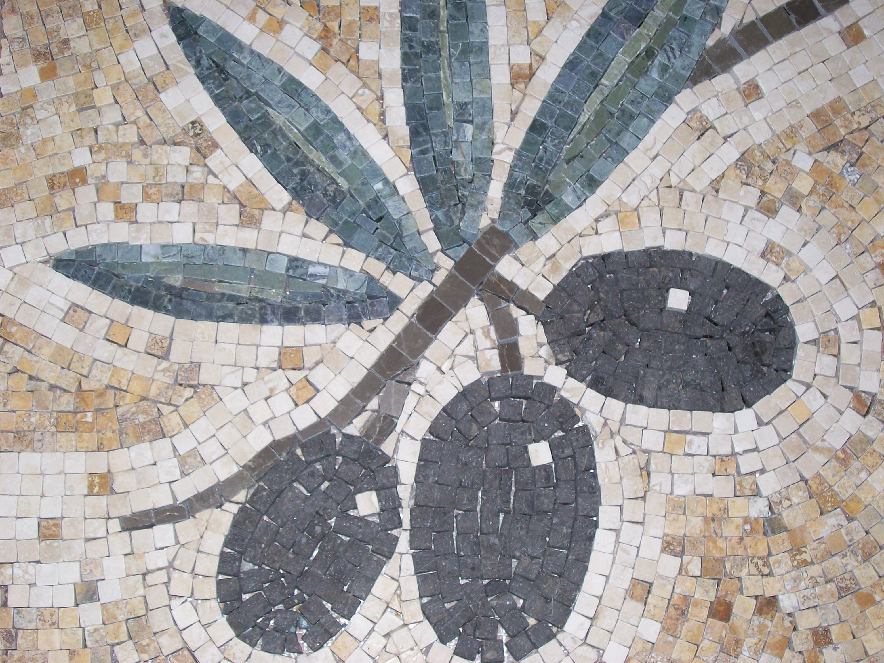 Olive. Burhaniye Ören Tourism Festival.